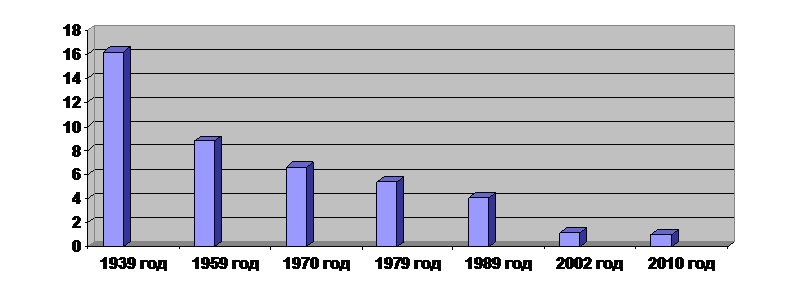 Proportion of Jews in the general population of the Jewish Autonomous Region by year